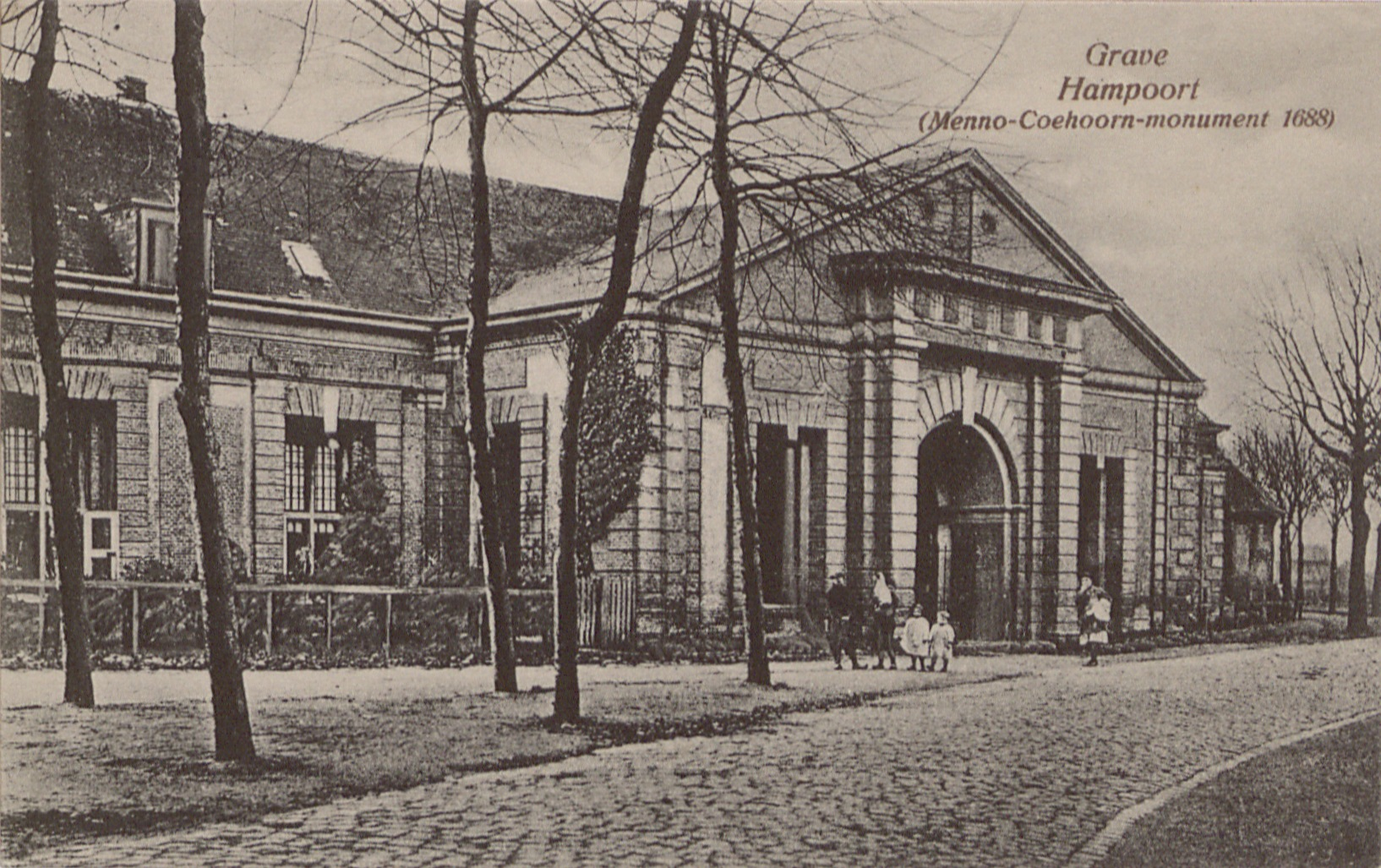 'Hampoort' (city gate) Grave 1925